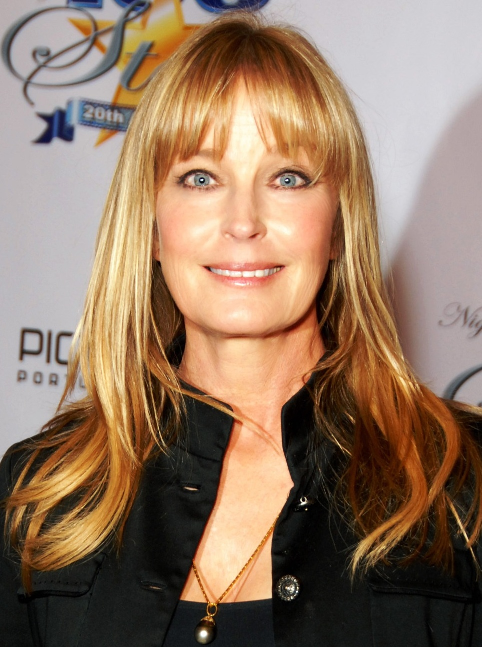 Bo Derek attending the "Night of 100 Stars" for the 82nd Academy Awards viewing party at the Beverly Hills Hotel, Beverly Hills, CA on March 7, 2010 - Photo by Glenn Francis of